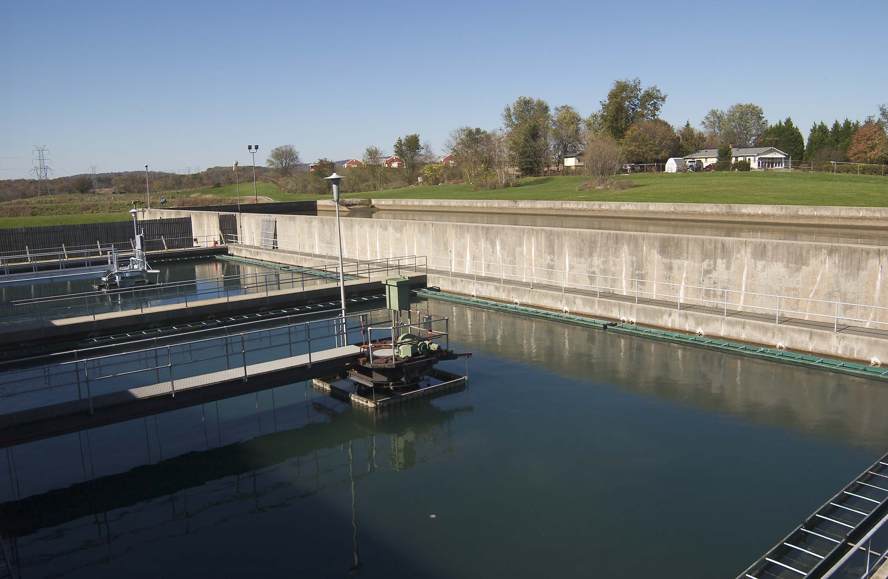 During filtration, water passes through filters, some made of layers of sand, gravel, and charcoal that help remove even smaller particles. Filtration and later chemical treatment (e.g., chlorine) played a role in reducing the number of waterborne disease outbreaks in the early 1900s.